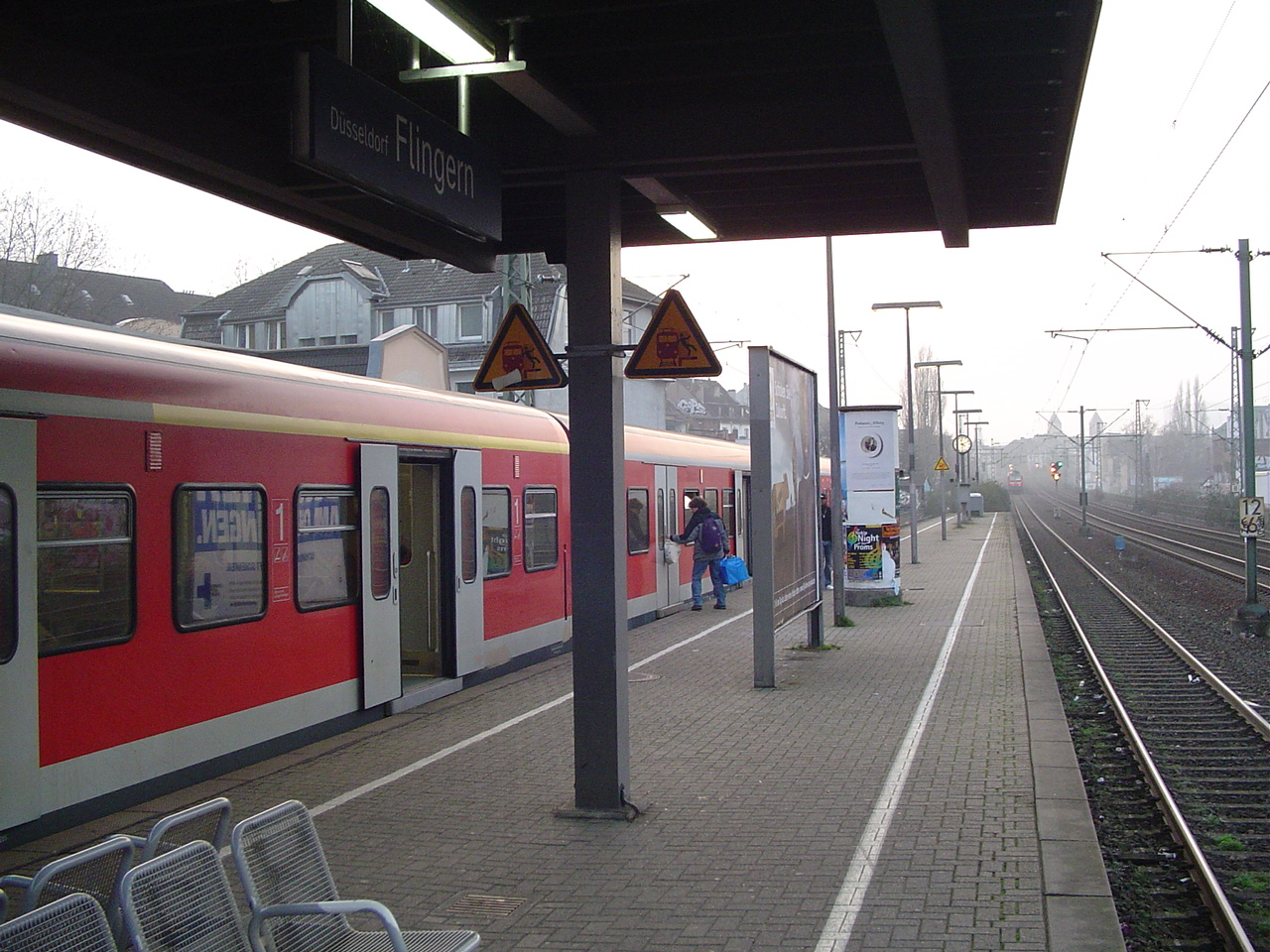 Düsseldorf-Flingern S-Bahn stop, Germany